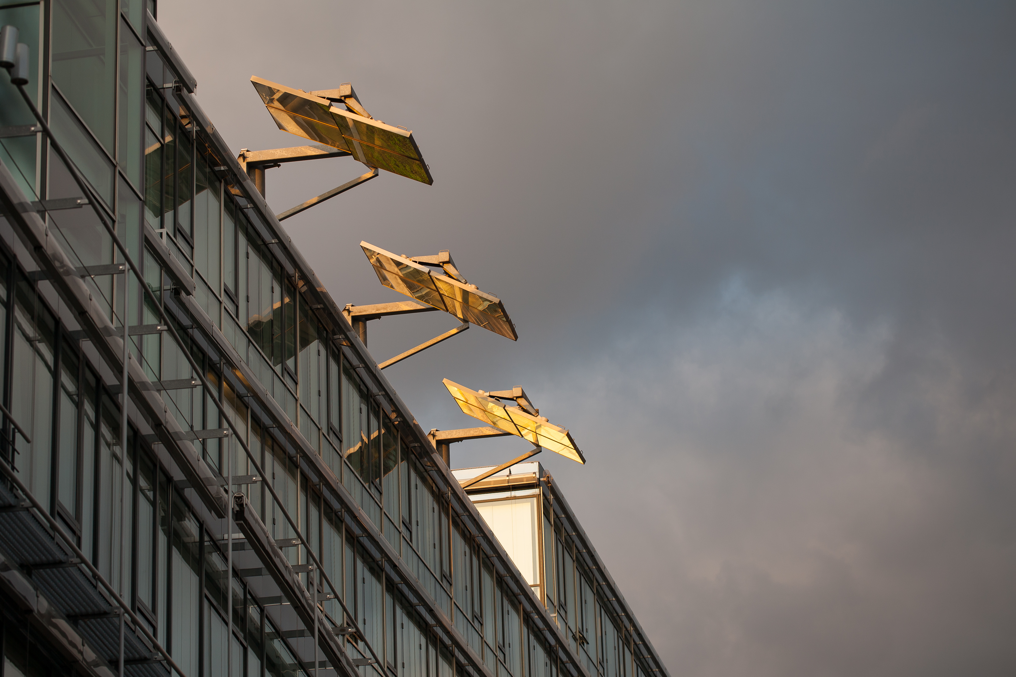 Mirrors installed on the roof of the Nord-LB office building in Hanover, Germany. The mirrors are able to direct light into the inside-oriented offices.